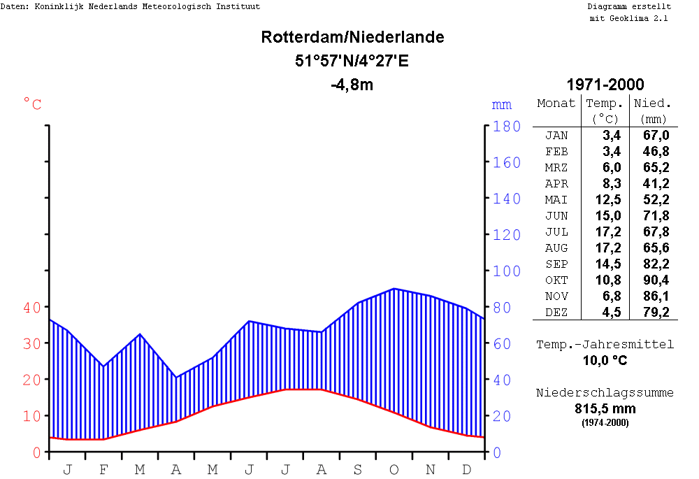 climate chart of Rotterdam, the Netherlands, for the period of time from 1971 to 2000, in the format by Walter and Lieth, metric, °Celsius and millimeters, chart made with Geoklima 2.1, label in German